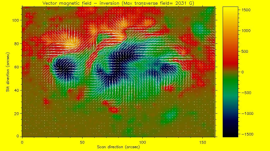 Vectorial magnetic field in an active region of the solar surface. Color levels depict the line-of-sight component of the magnetic field, while the white ticks correspond to the transverse component. The field strength is expressed in Gauss.